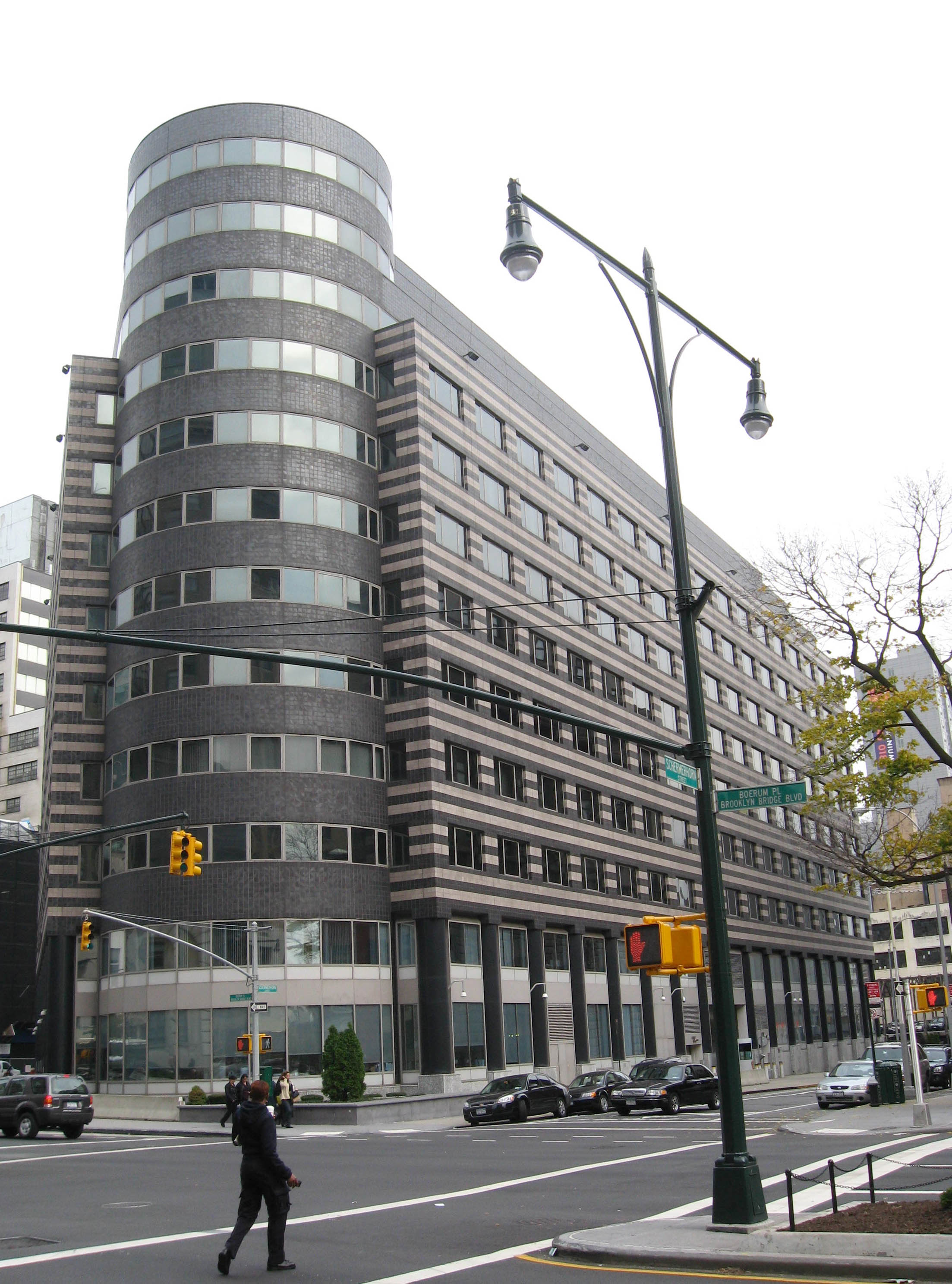 Looking northeast across Boerum Place and Schermerhorne Street at MTA New York City Transit Authority HQ on a cloudy afternoon.